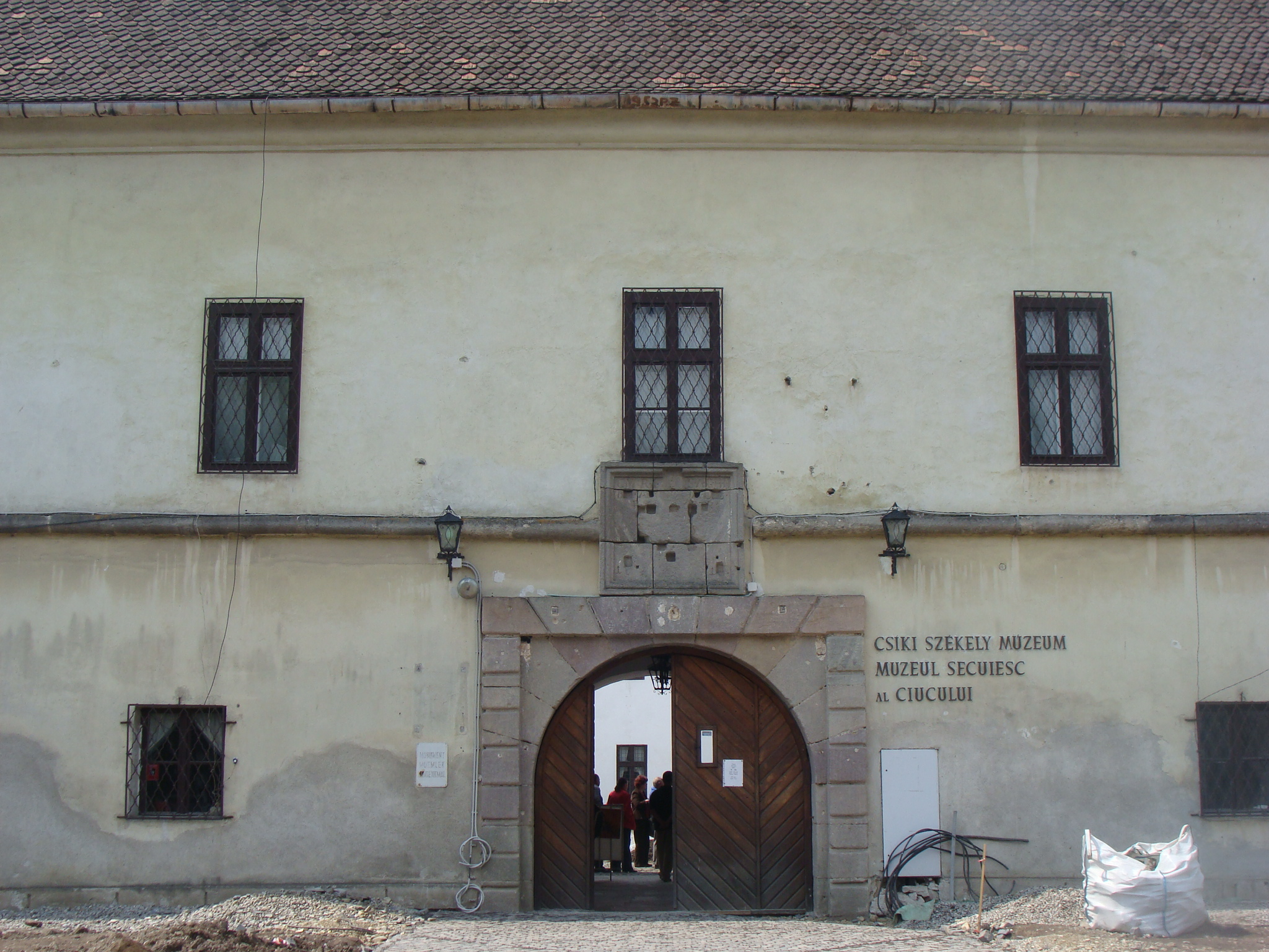 The entrance of the Sekler Museum of Ciuc